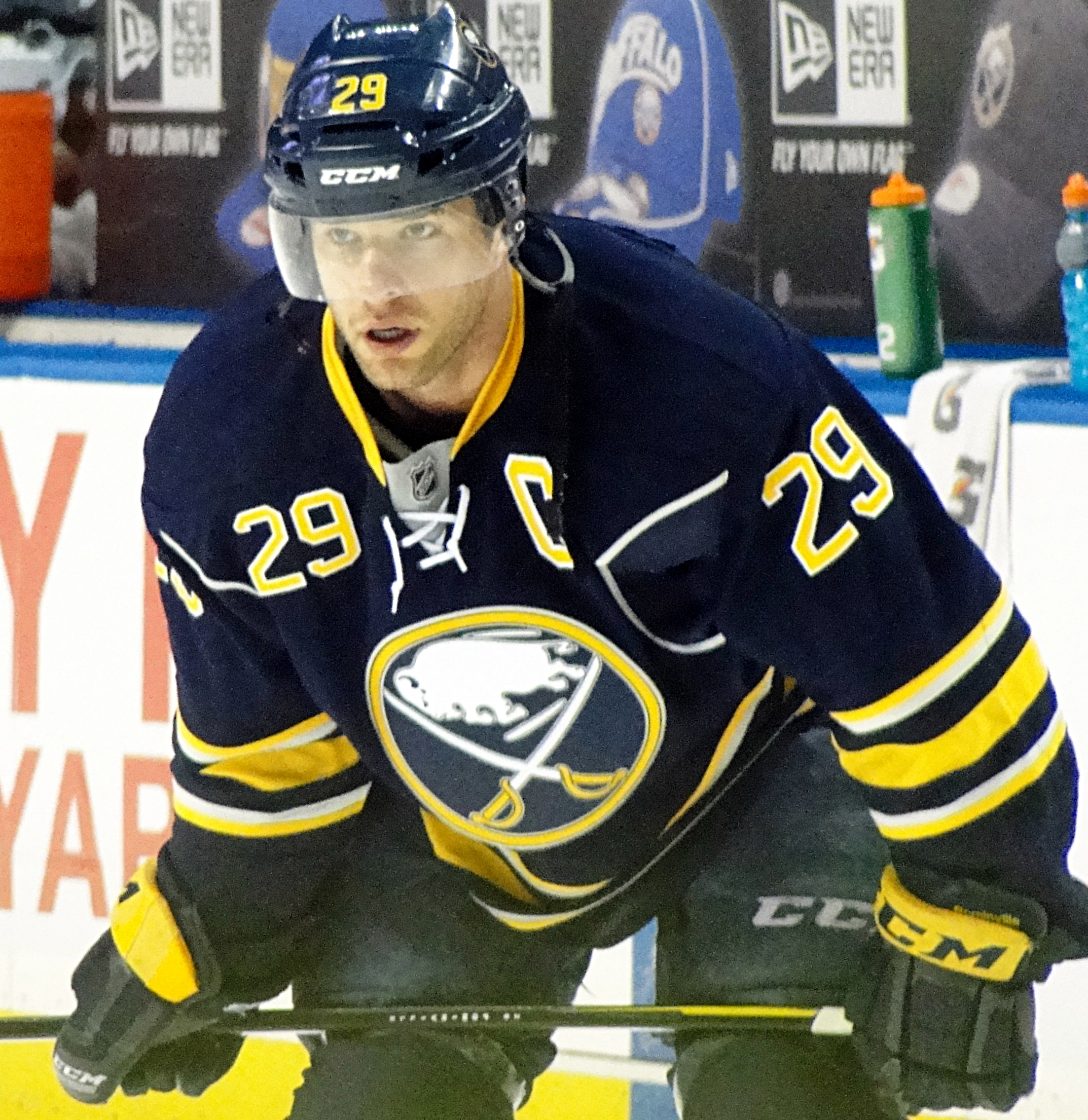 Buffalo Sabres forward Jason Pominville warms up for a February 19, 2012 game against the Pittsburgh Penguins at First Niagara Center in Buffalo, NY.